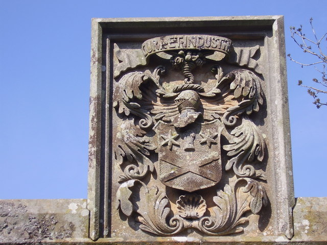 A stone plaque This plaque stands atop an old headstone at the graveyard of St. Mary of Wedale Church in Stow. Walker coat of arms (probably linked to the Walker-Okeover baronets) : Or, three pallets gules surmounted of a saltire argent on a chief azure a garb between two stars of six points of the first (Debrett's Peerage & Baronetage 2015 Edition, London, 2015, p.B606). Crest : a cornucopia. Motto : Cura et industria.